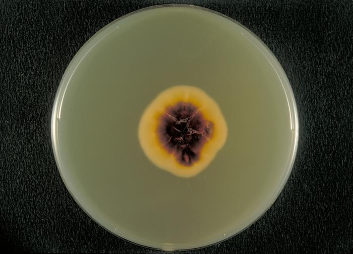 ID#: 4248 Description: This is a bottom view of a Sabouraud’s dextrose agar plate culture growing a Mexican isolate of T. rubrum var. rodhaini. Dermatophytic members of the genus Trichophyton are some of the leading causes of hair, skin, and nail infections in humans. The genus includes anthropophilic, zoophilic, and geophilic species. Content Providers(s): CDC/Dr. Libero Ajello Creation Date: 1974 Copyright Restrictions: None - This image is in the public domain and thus free of any copyright restrictions. As a matter of courtesy we request that the content provider be credited and notified in any public or private usage of this image.